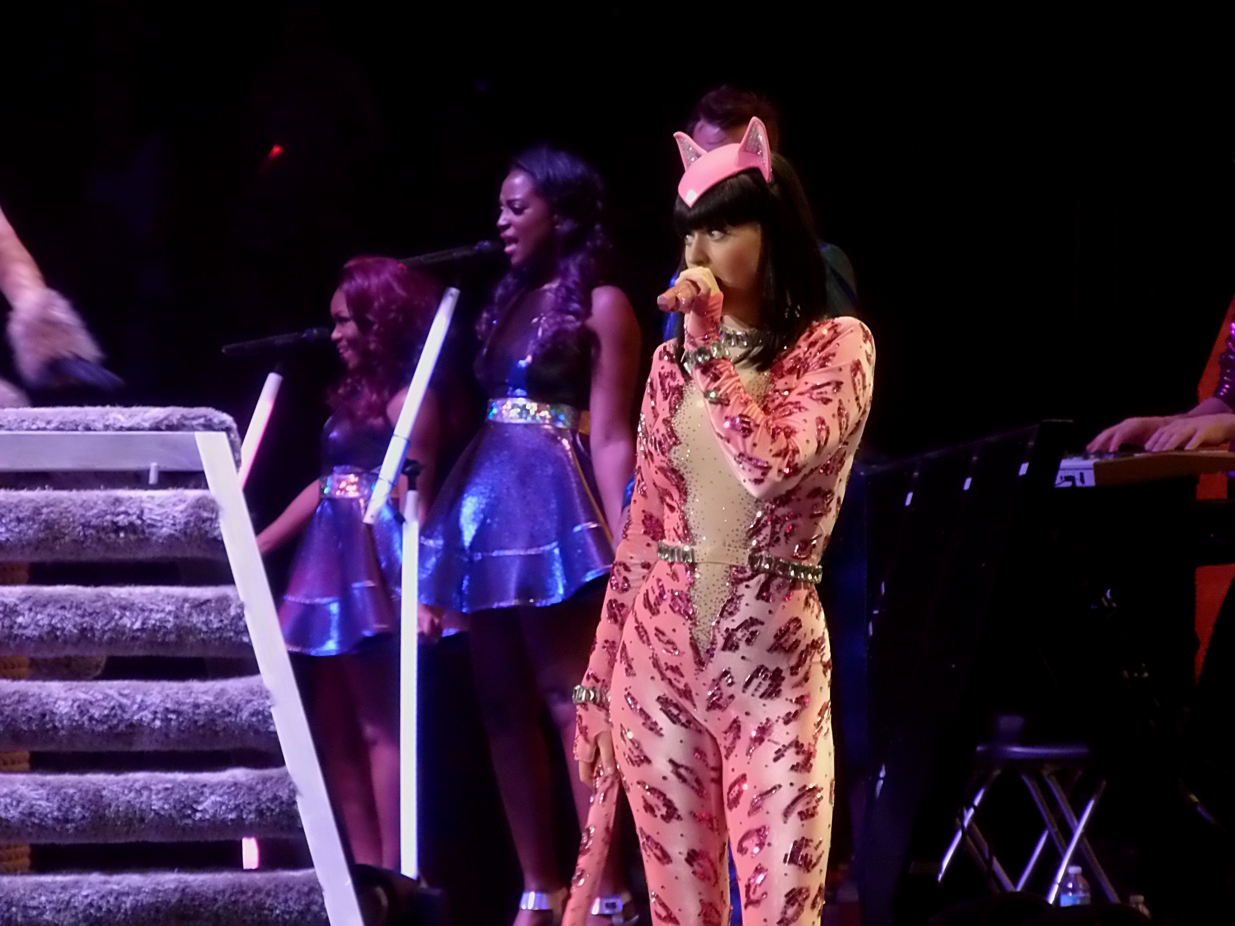 Katy Perry performing at BB&T Center in Sunrise, Florida in July 2, 2014.